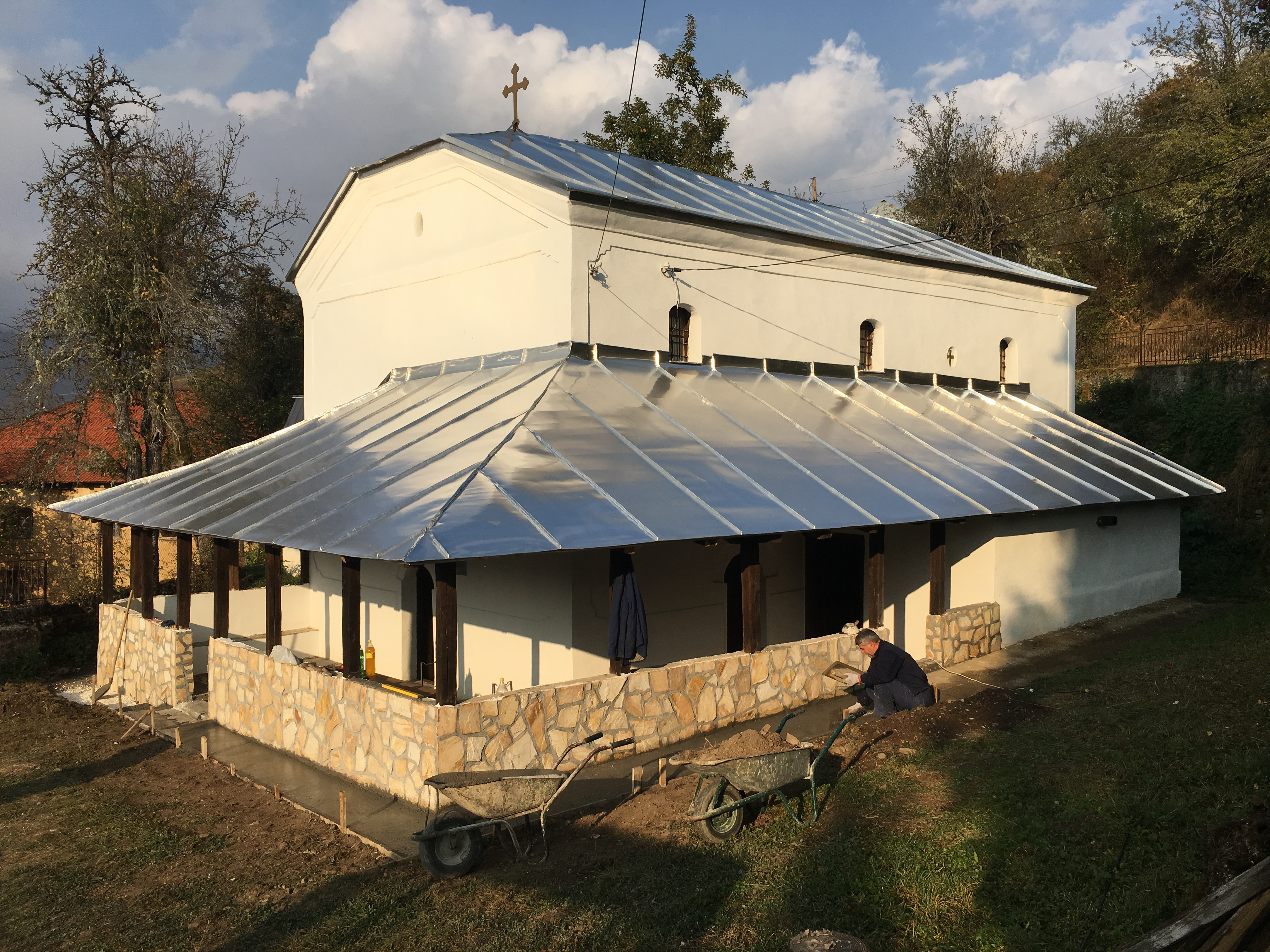 Wikiexpedition to Kopačka